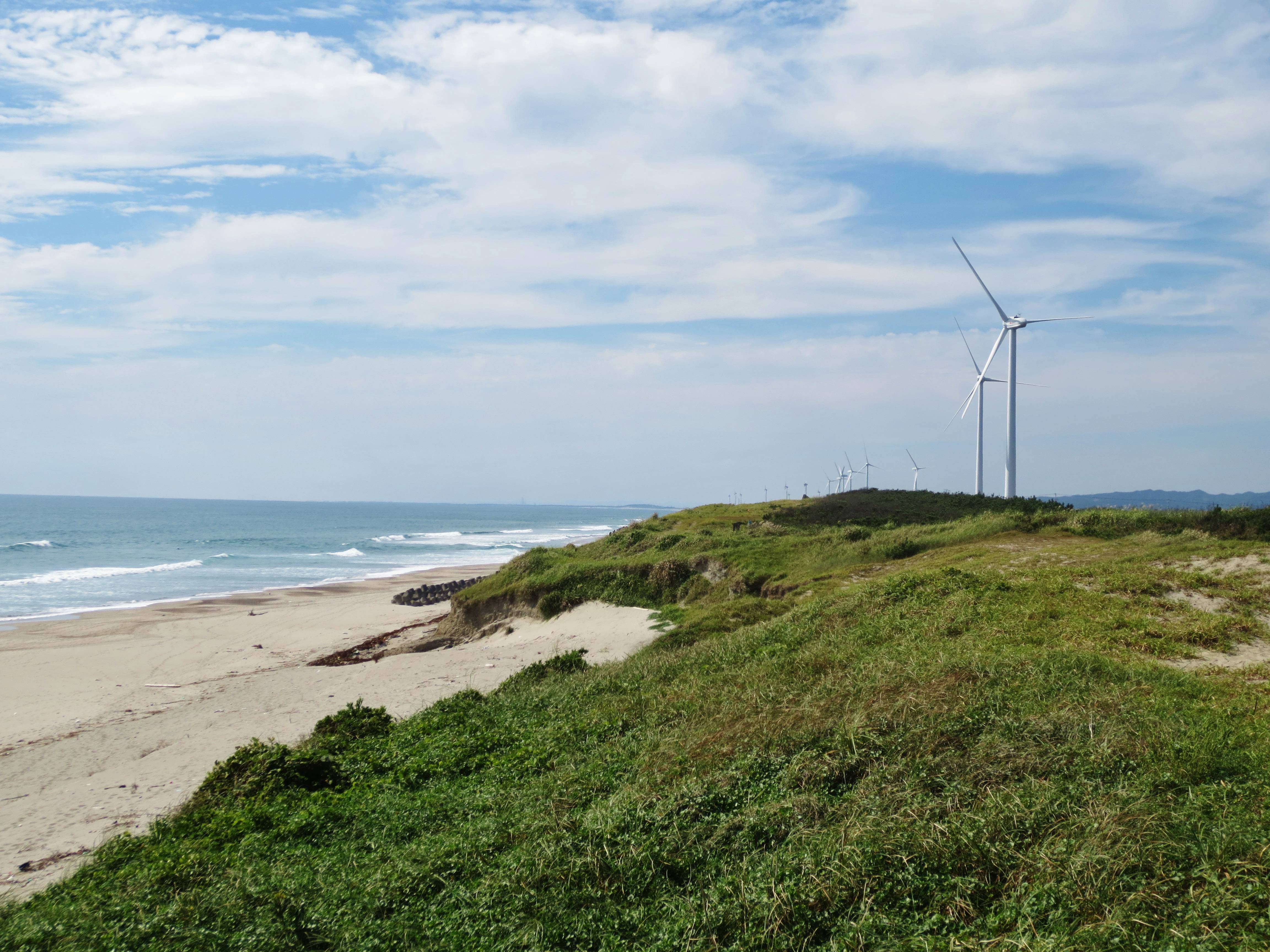 Omaezaki Wind Power Station Phase 2.